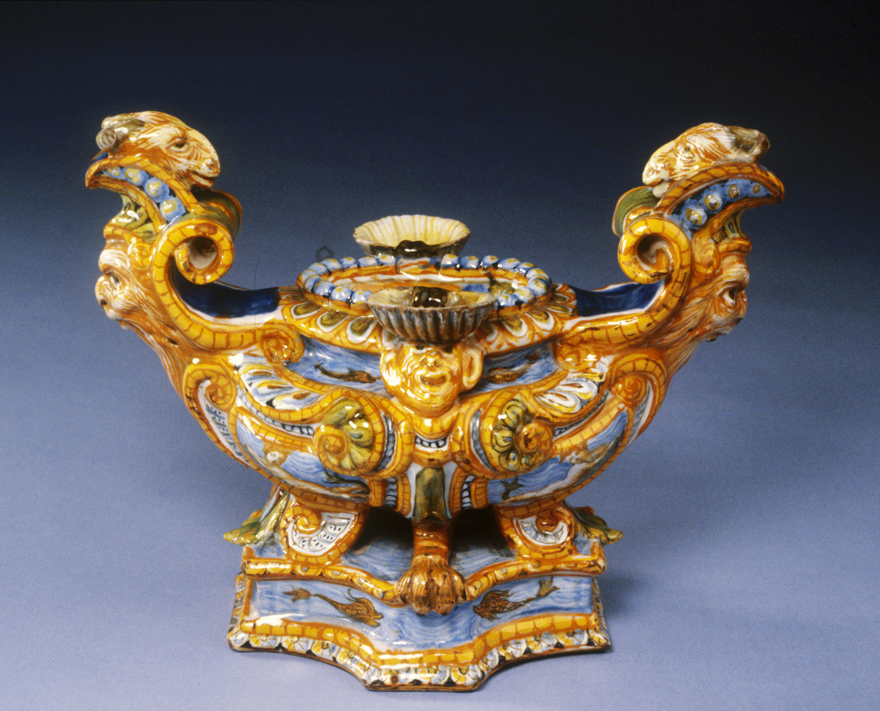 The importance of the salt cellar (from the French "salière"), a shallow vessel for salt, on the Renaissance table reflected not only the critical role of salt in cooking but the pleasure taken in extravagant vessels to embellish the banquet table. In this elaborately molded example, the painted marine motifs with sea monsters and dolphins reflect the object's function, since salt was a product of the sea. The ingenious shape of this cellar, ornamented with the heads of hybrid creatures, exemplifies the late Renaissance delight in inventiveness.